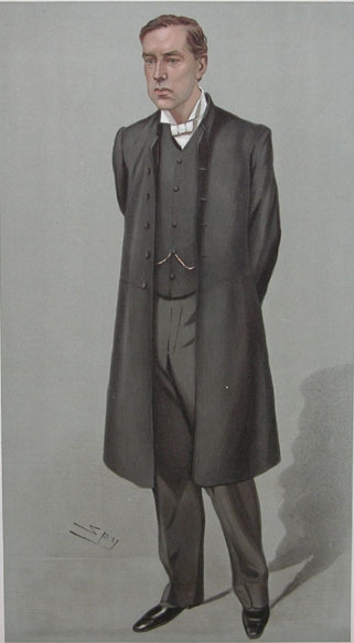 Caricature of Reverend Bertram Pollock, Master of Wellington College, Berkshire.